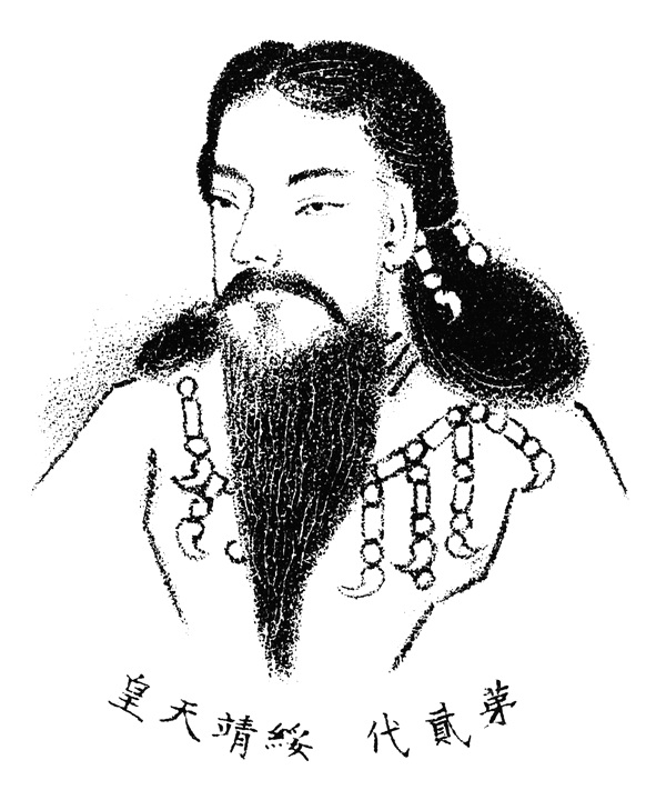 Emperor Suizei, who was the 2nd emperor of Japan